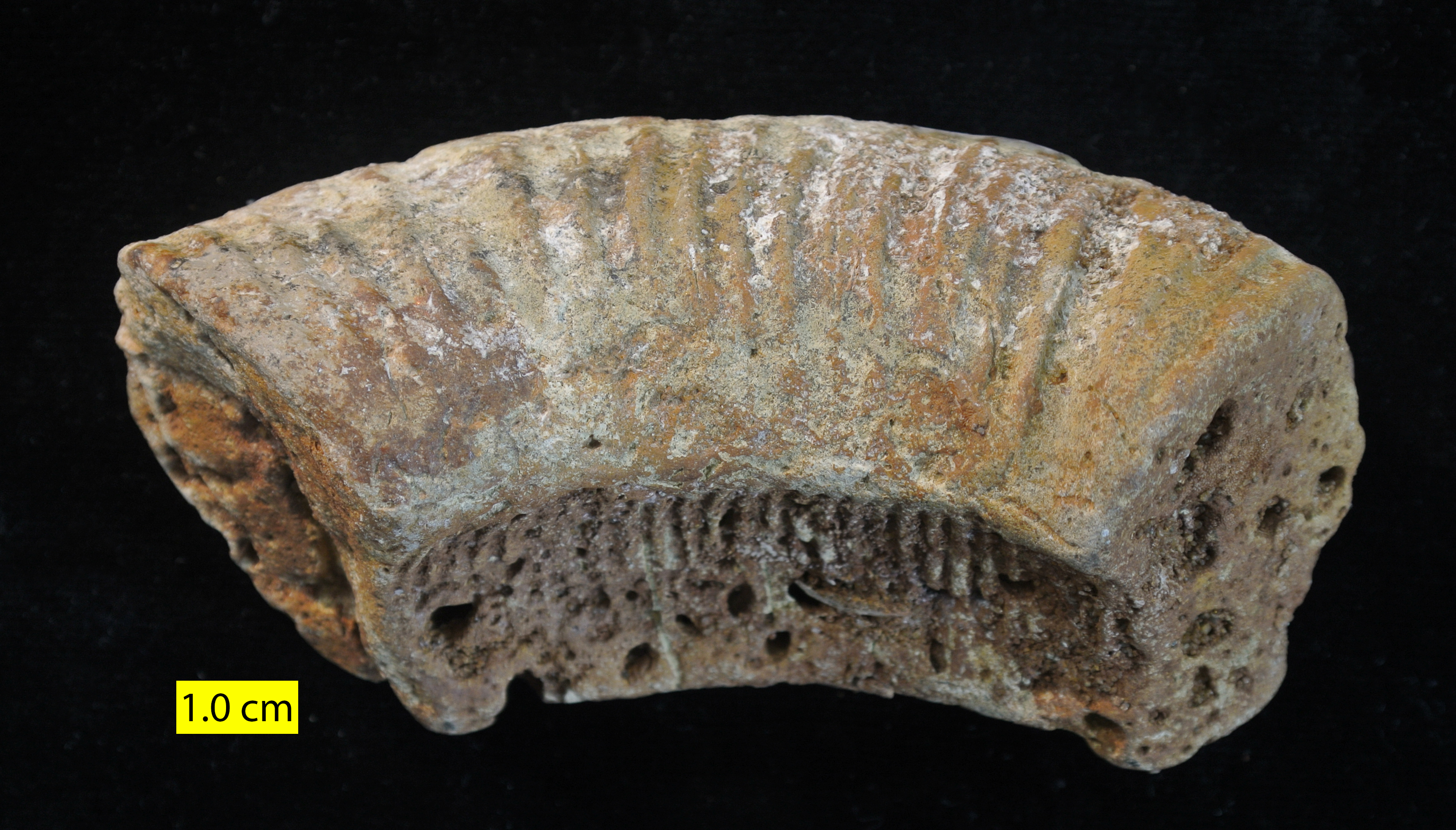 Jurassic ammonite internal mold redeposited in Cretaceous sediments (and thus remanie); Faringdon Sponge Gravels, England.